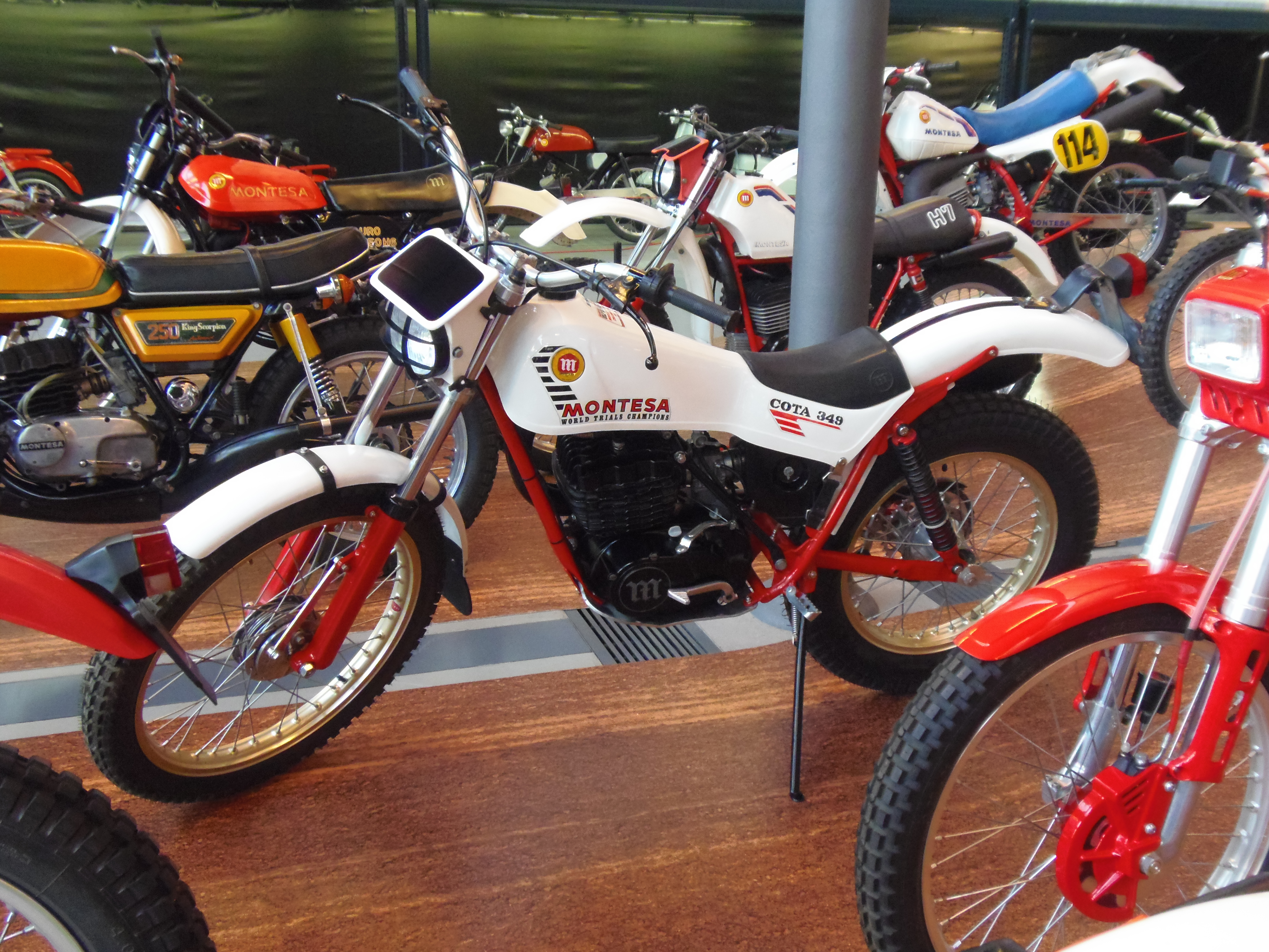 Montesa Cota 349, 1981